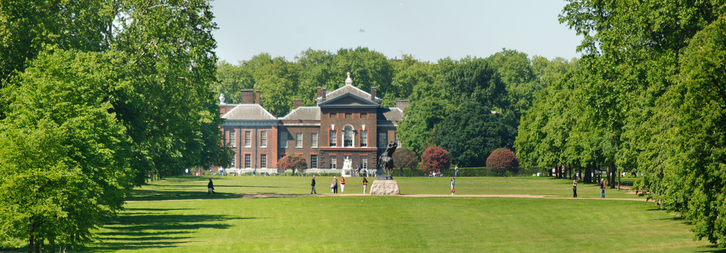 Kensington Palace. You can also see the Statue of Physical Energy and closer to the Palace a statue of Queen Victoria.